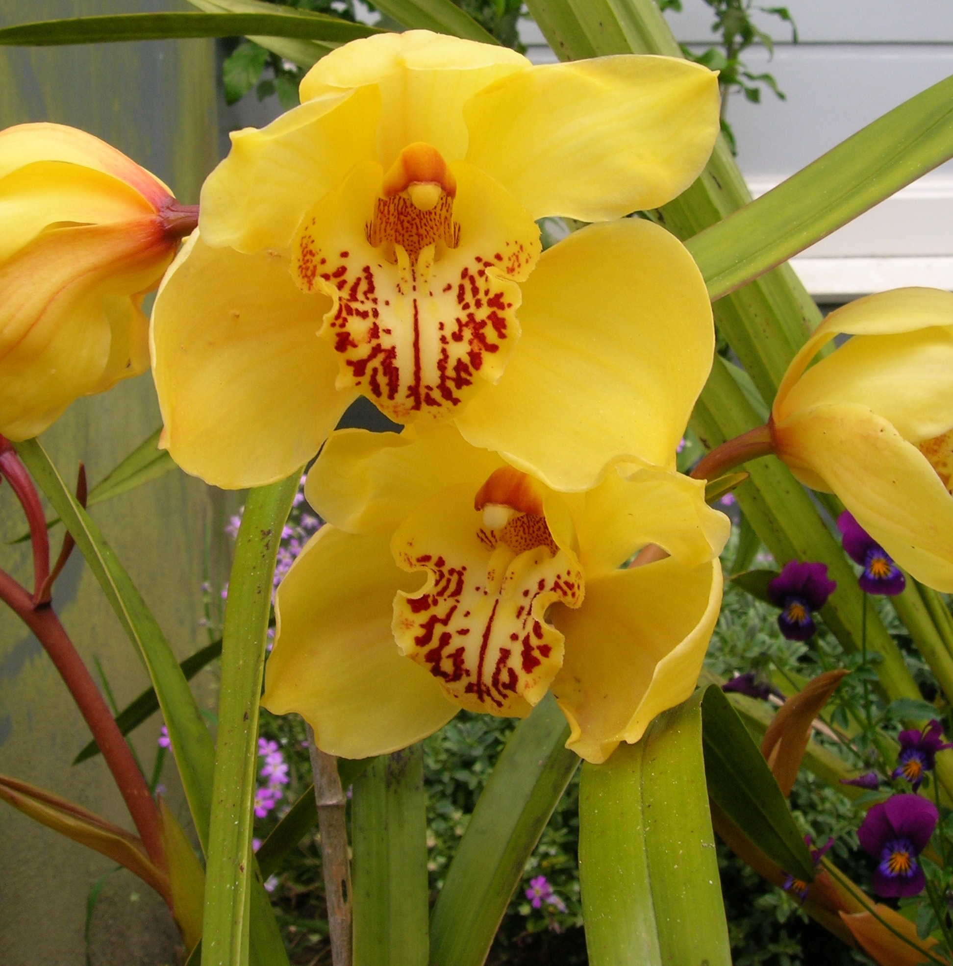 Unknown yellow orchid, Westoe Garden, New Zealand